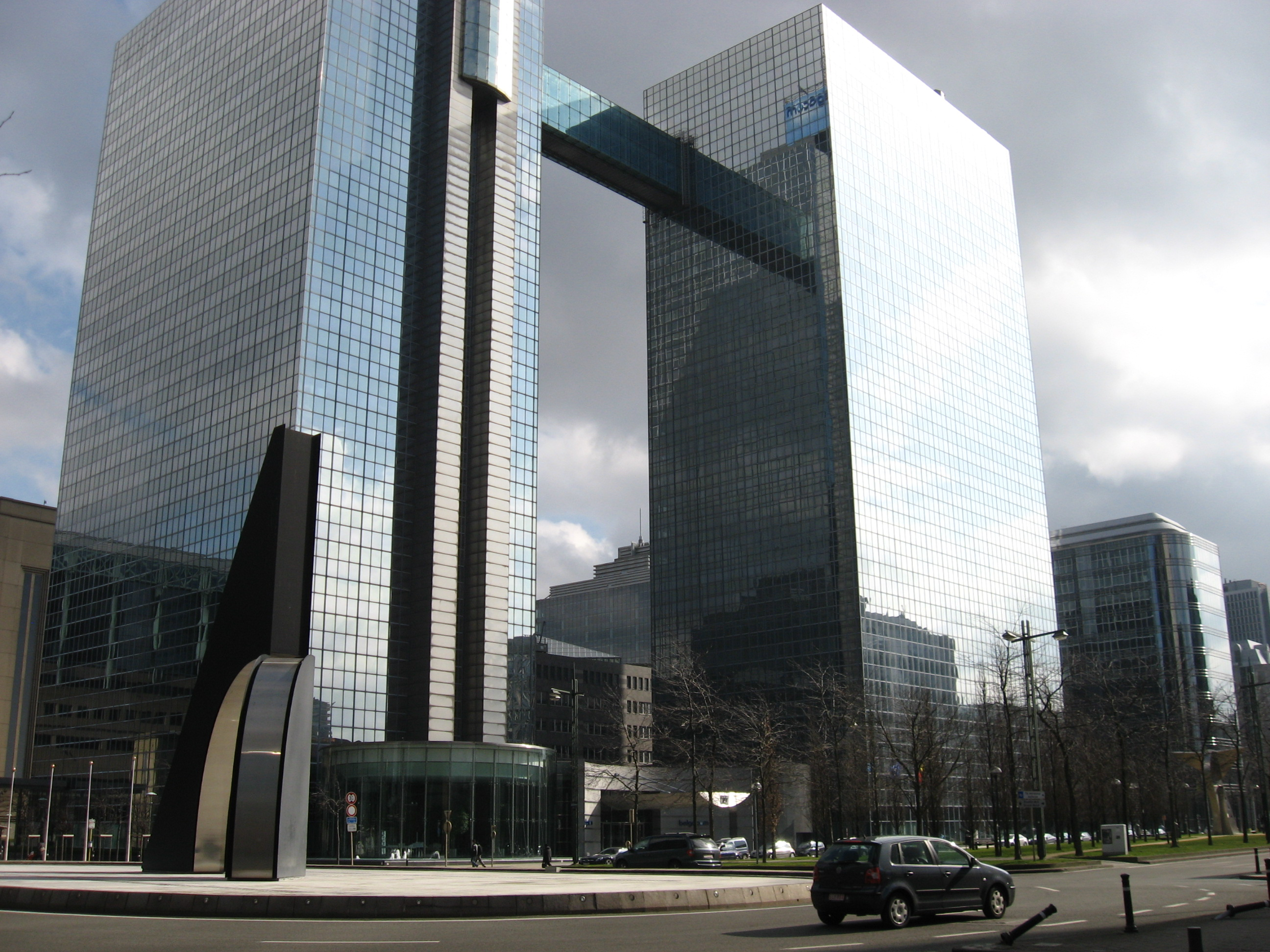 Belgacom towers close to Brussel North station